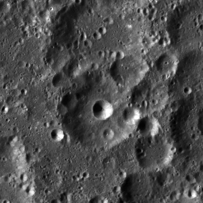 LROC . Lauritsen at center of image, includes satellite Y.